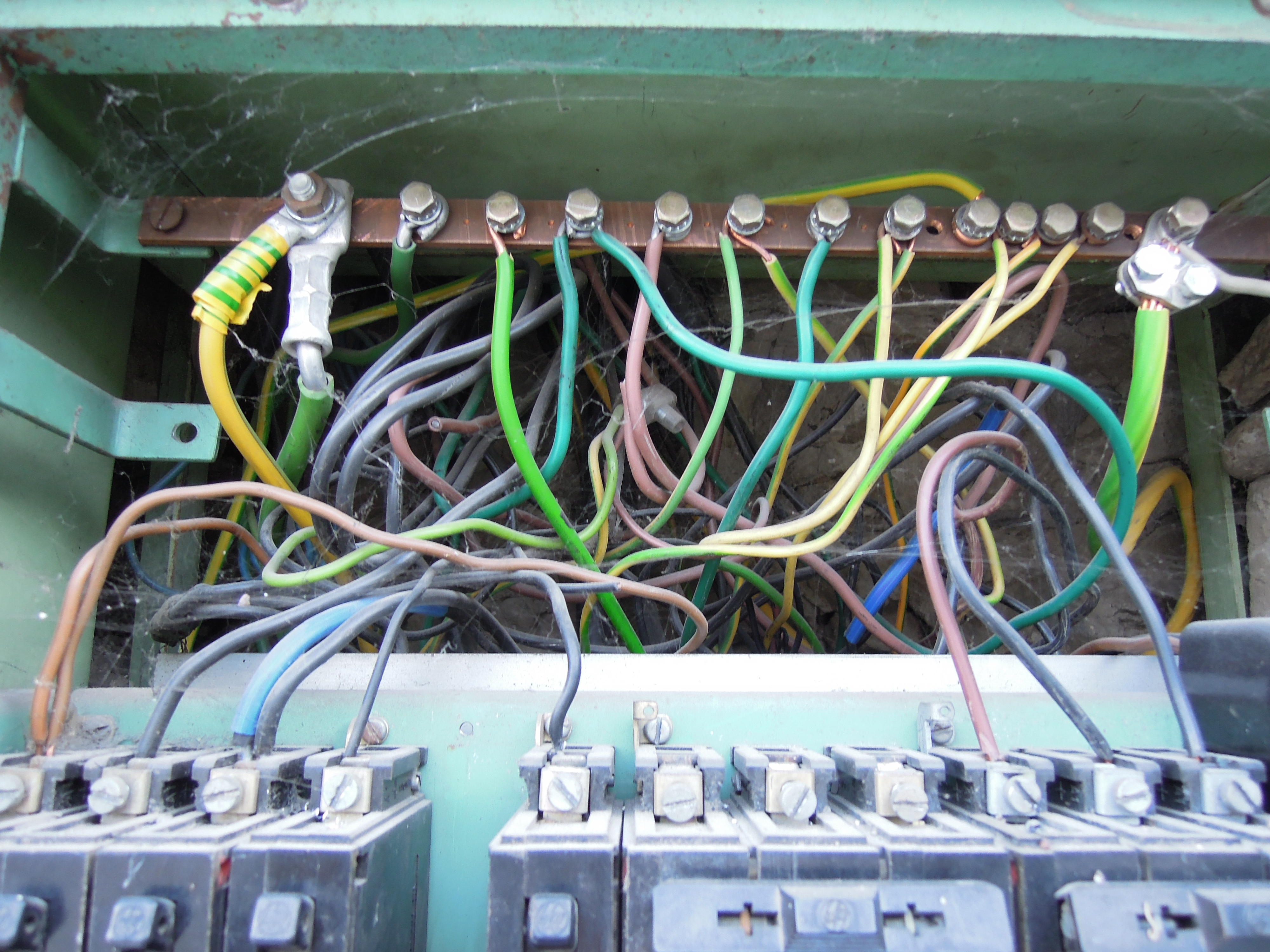 Distribution board in Slovakia, 2017